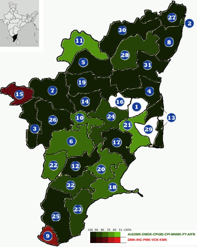 Used Inkscape on TN Districts Numbered 2009.png, for use in 2011 tamil nadu assembly election page. The map is a wikipedia tamil nadu district map. Used the information about assembly seats to districts from [1].